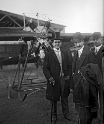 Jose María Pino Suárez, Vice-President of Mexico (1911-13), visits the Aerial Exhibition, accompanied by Gerald Brandon, a journalist.